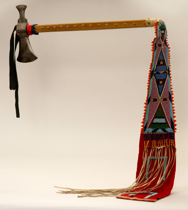 Tomahawk and Drop The tomahawk is a steel Hudson’s Bay Company trade item, attached to a squared handle of cottonwood . Decorative elements include brass tacks, ribbon and wool cloth on the handle. The drop is made from a piece of buffalo hide painted on the reverse with yellow ochre. The front is decorated with glass beads and edged with wool trade cloth. The fringe consists of wound glass beads and shells threaded onto buckskin strips. This tomahawk and drop comes from the Carter Collection, and was originally from the Looking Glass family Metal, cottonwood (Populus tricocarpa), glass beads, buffalo hide (Bos bison). L 112.5, W 18.0 cm